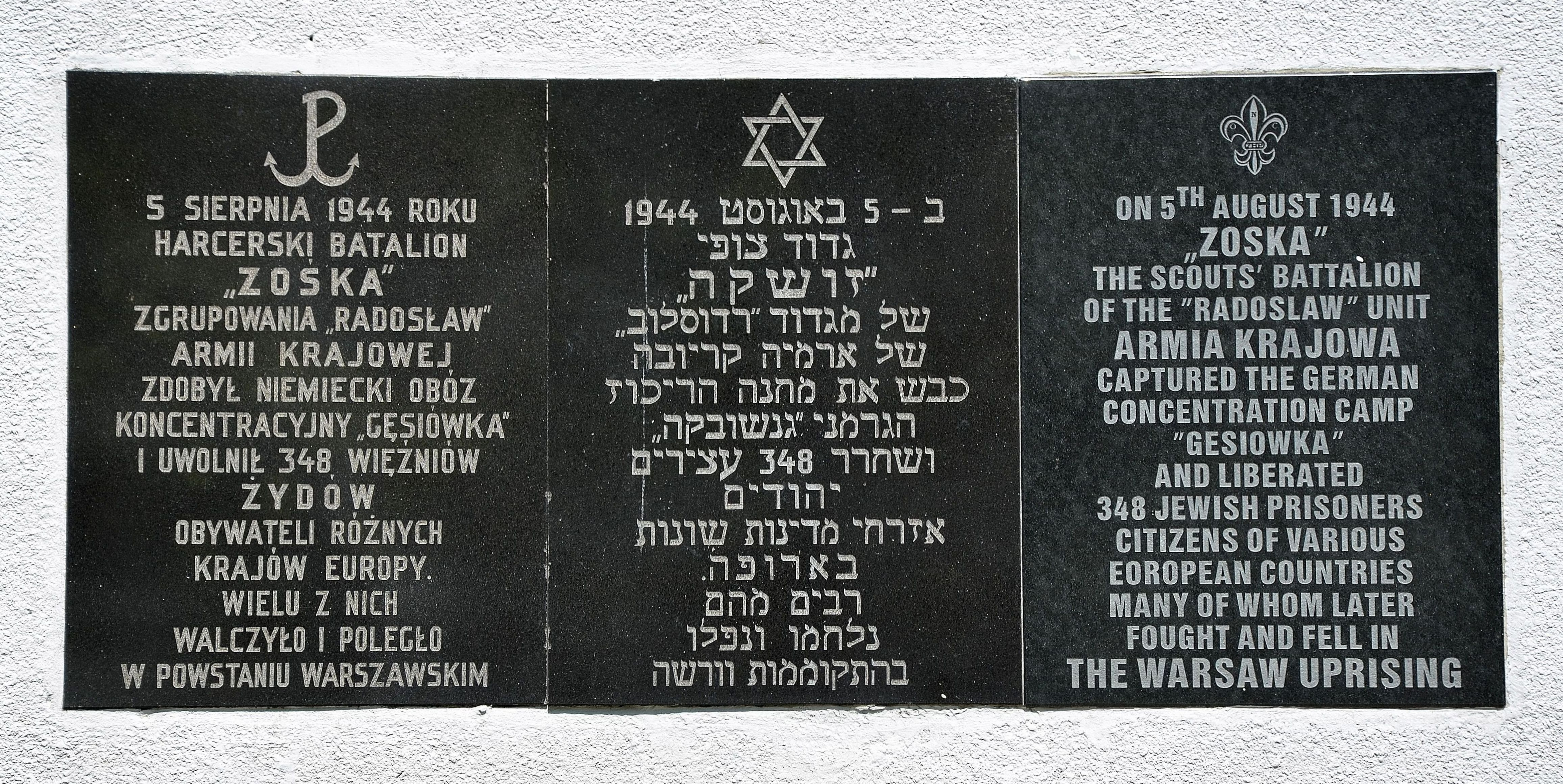 Gęsiówka commemorative plaque at 34 Anielewicza Street